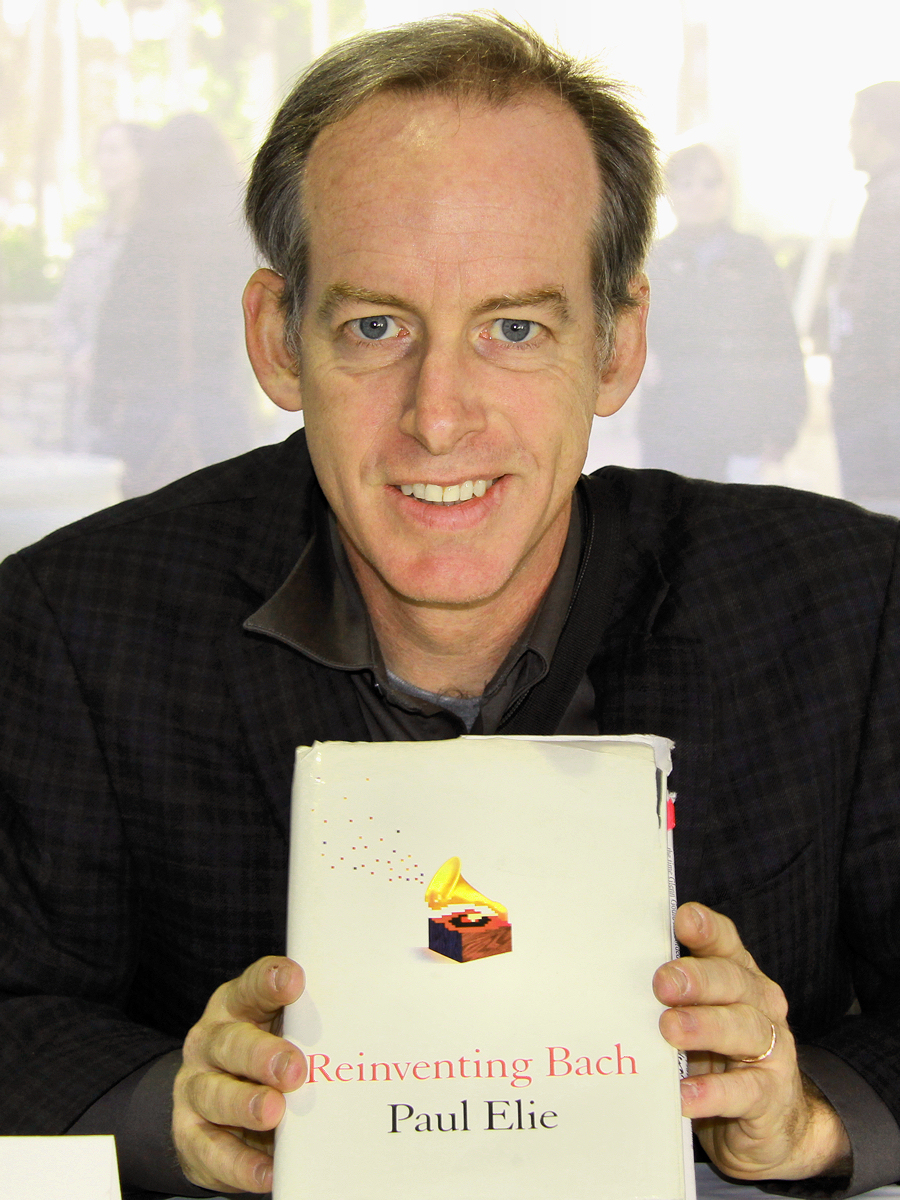 Paul Elie at the 2012 Texas Book Festival, Austin, Texas, United States.